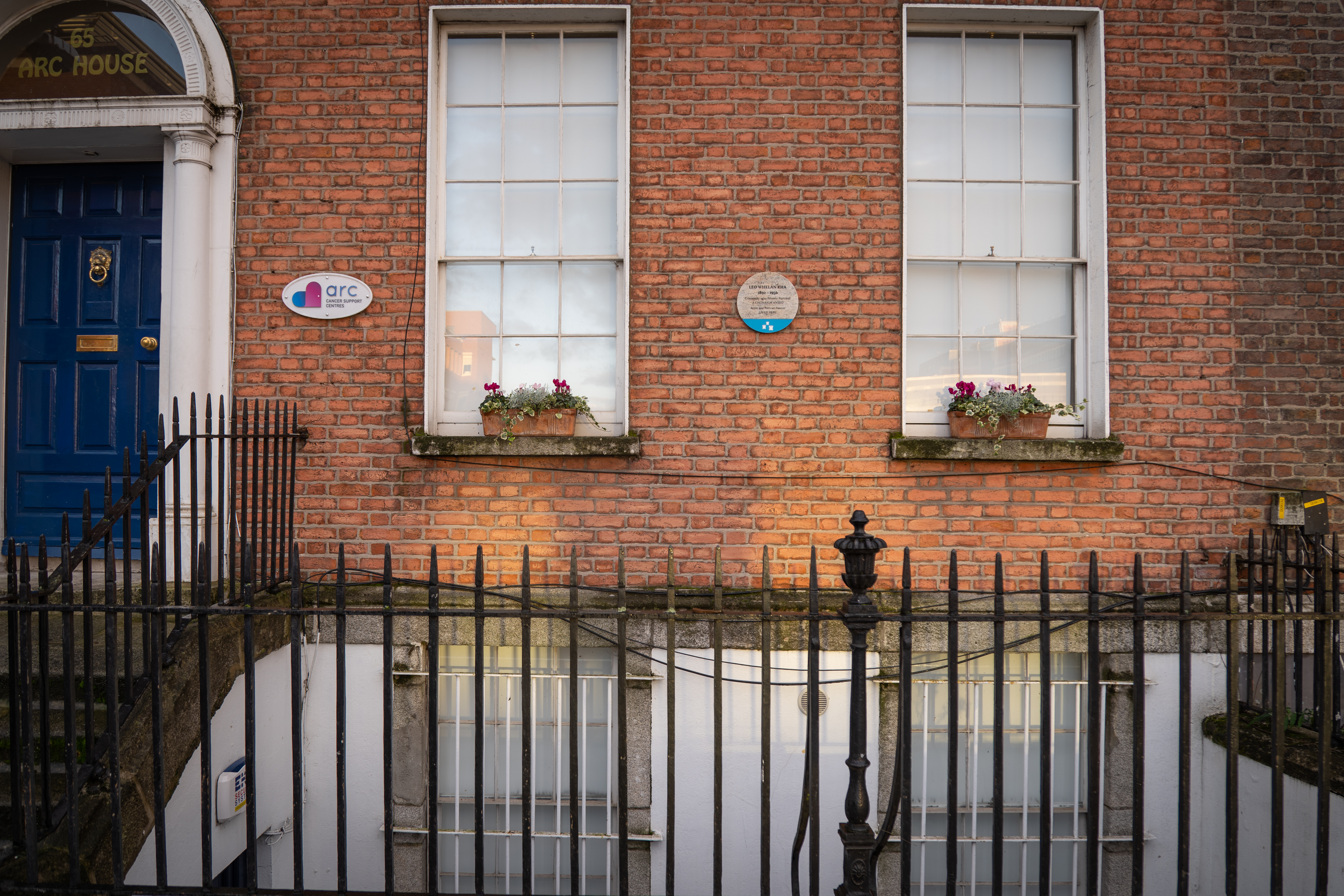 A Dublin City Council Commemorative plaque, unveiled on 2nd October 2015, in memory of Leo Whelan, artist & portrait.